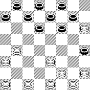 Opening "Igra Ramma-Cukernika" (Игра Рамма — Цукерника) in russian checkers after moves 1.cd4 fg5 2.bc3 gh4 3.gf4 gf6 4.fg5 h:f4 5.e:g5 hg7 6.gh6 dc5 7.de3 cd6 8.cb4 ba5 9.b6 a:c7